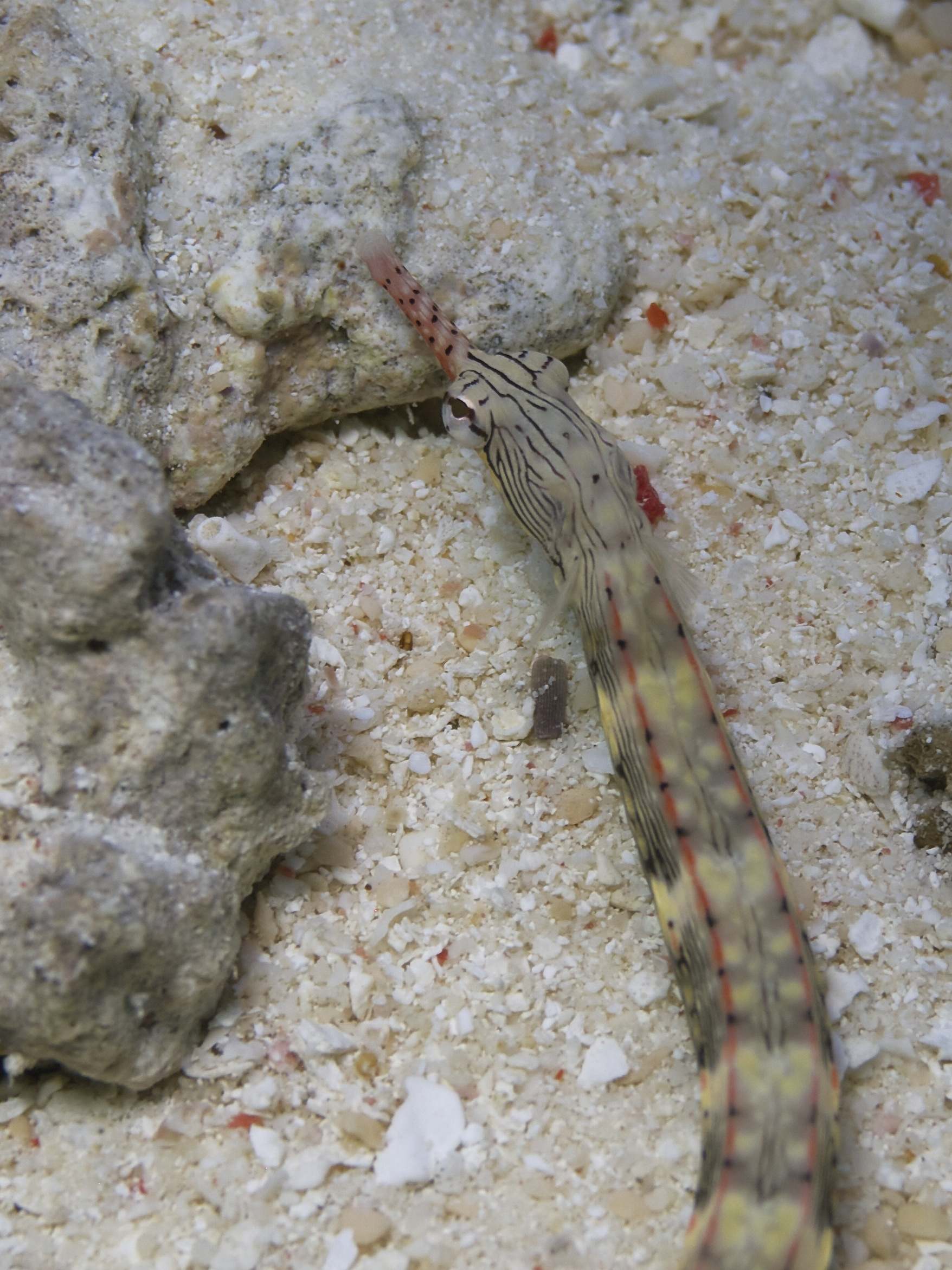 Corythoichthys intestinalis, Sorong, Papúa Occidental, Indonesia